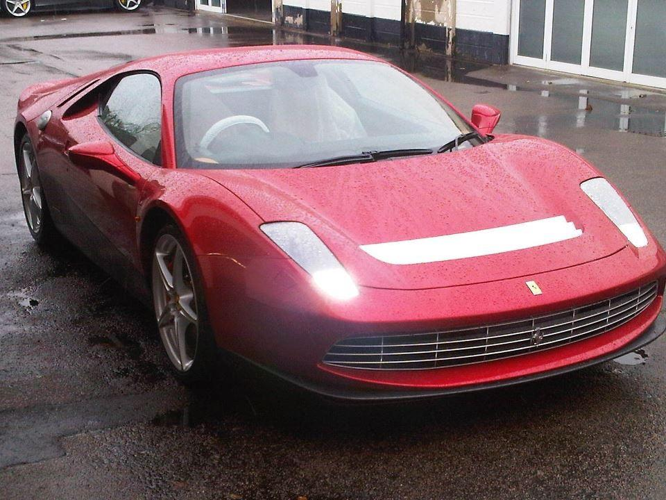 I spotted this in Jersey City if I remember rightly and uploaded it to some blogs as well now here to share it with people.